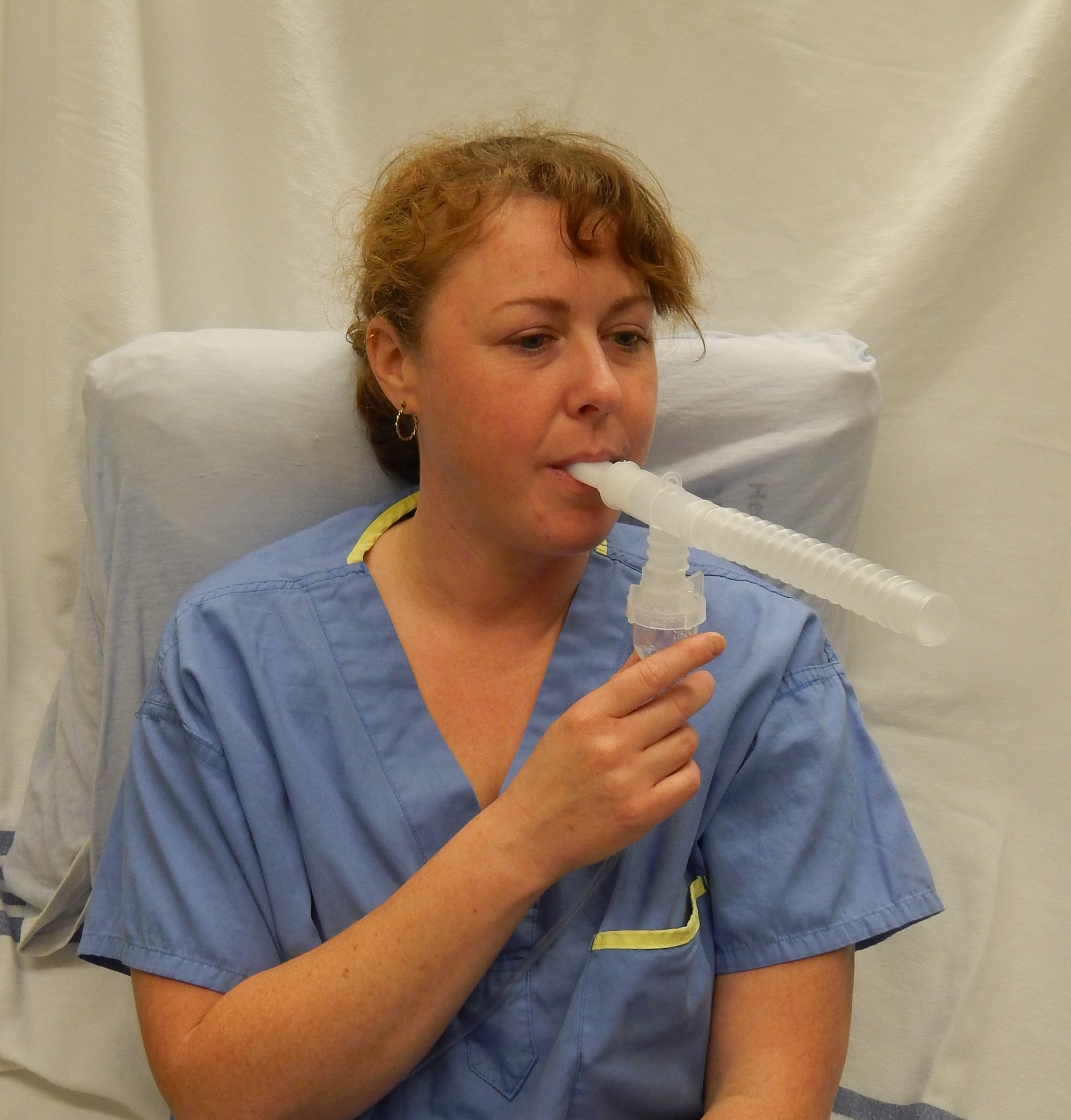 A nebulizer mask